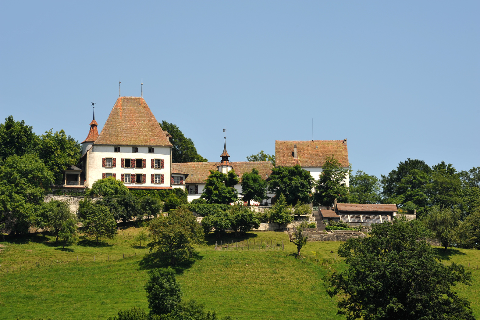 Burgistein castle between Wattenwil and Riggisberg; Bern, Switzerland.